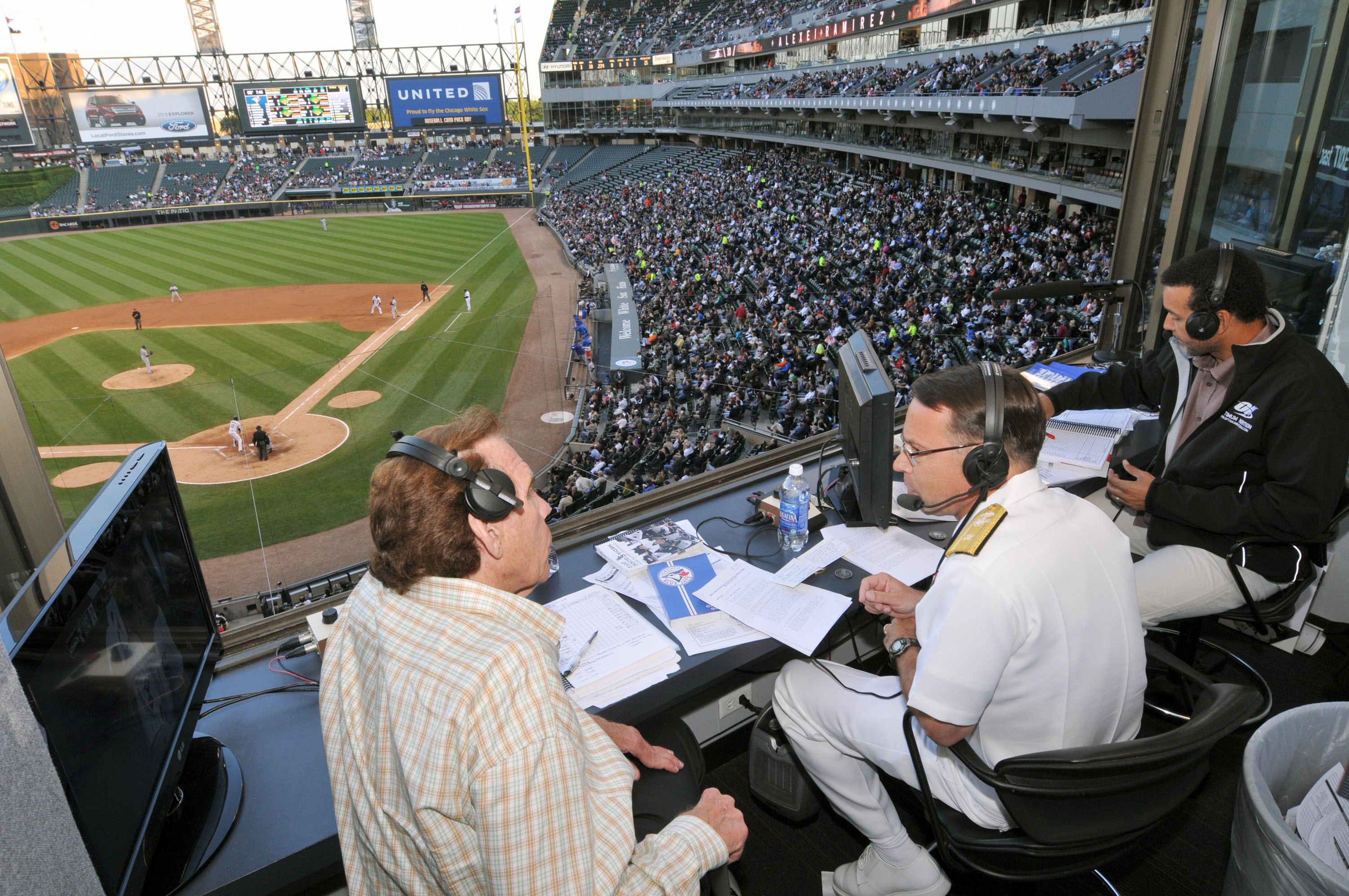 CHICAGO (June 5, 2012) Rear Adm. David F. Steindl, commander of Naval Service Training Command (NSTC), speaks to Ed Farmer, Major League Baseball’s Chicago White Sox radio play-by-play broadcaster during a White Sox game against the Toronto Blue Jays at U. S. Cellular Field. Steindl gave the oath of enlistment to 86 young men from the Chicago-area, Indiana, and Wisconsin at the 27th annual Chicago White Sox Navy Night before the game. Steindl was the guest of honor for the event and also threw out the first pitch after enlisting the new recruits during pre-game ceremonies. (U. S. Navy photo by Scott A. Thornbloom/Released) 120605-N-IK959-393 Join the conversation navylive.dodlive.mil